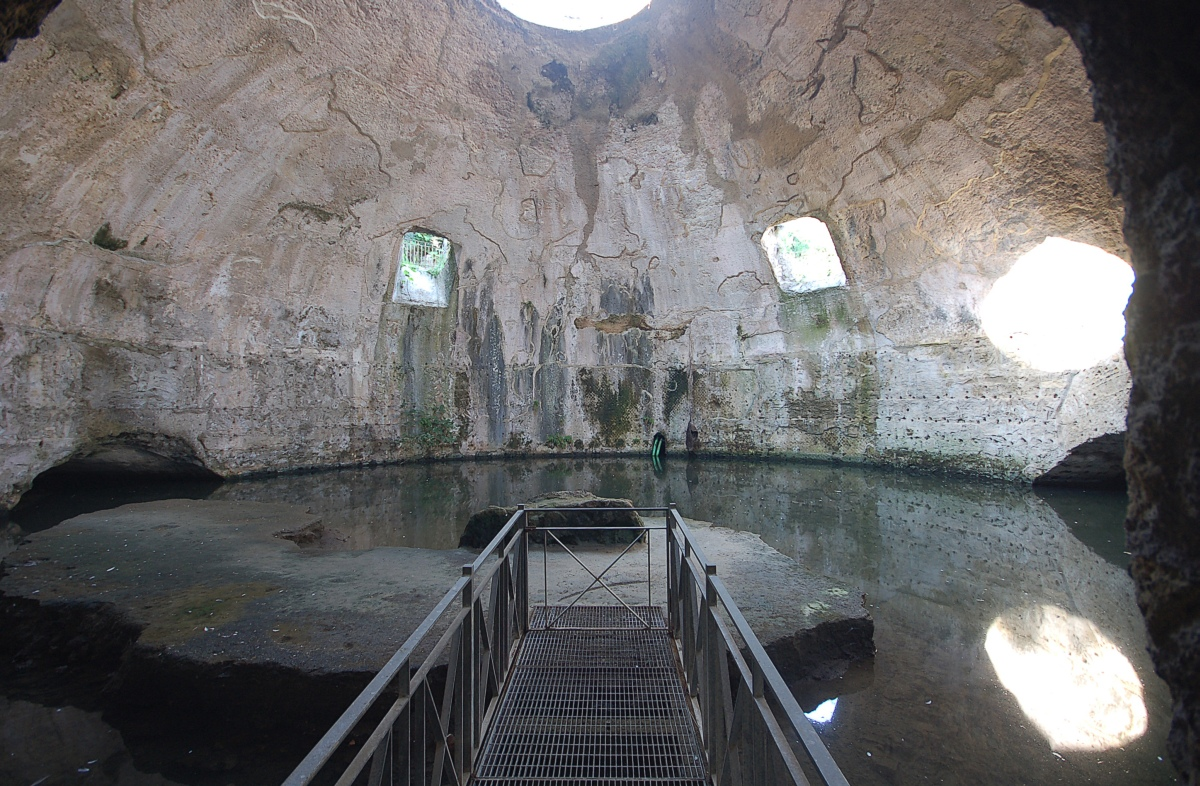 Compex of the roman thermapbath